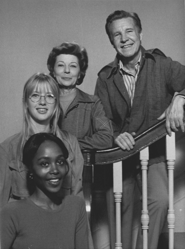 Publicity photo of American actors, (top to bottom) Ozzie Nelson, Harriet Nelson, Susan Sennett and Brenda Sykes promoting their roles on the syndicated Filmways television series Ozzie's girls, circa 1972.